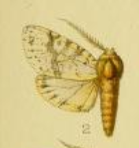 Drawing of Lophocampa grotei